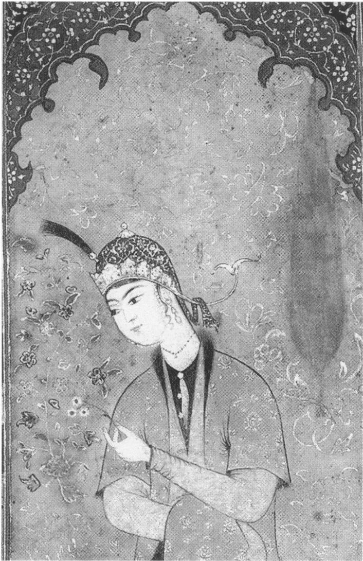 Work by Muhammadi featuring a seated princess, probably Parikhan Khanom according to Soudavar